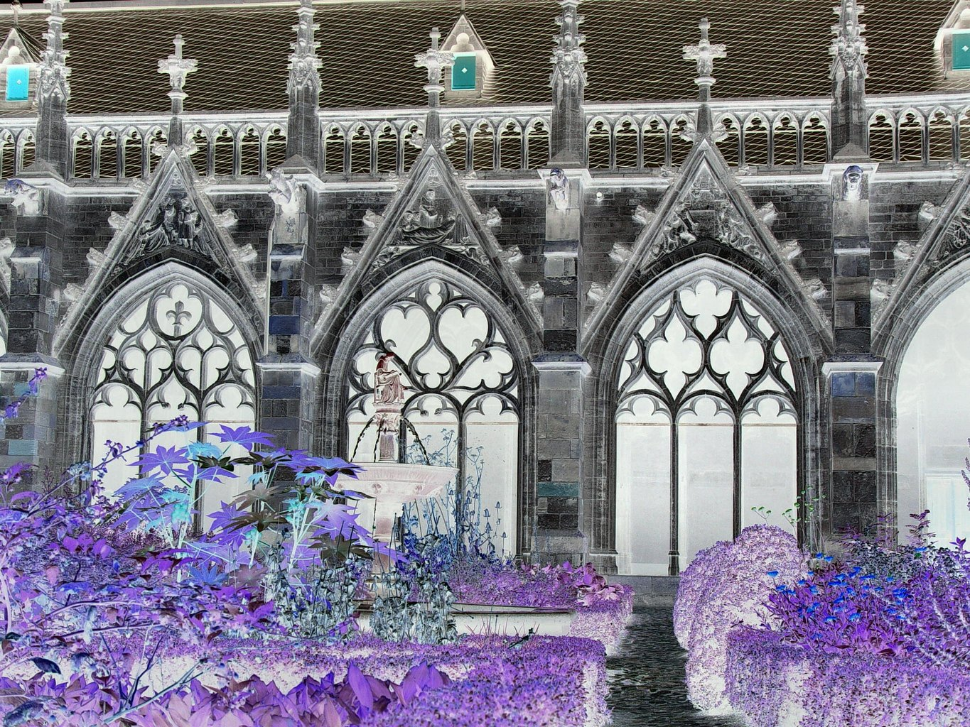 Dom church, Utrecht. Negative photography.